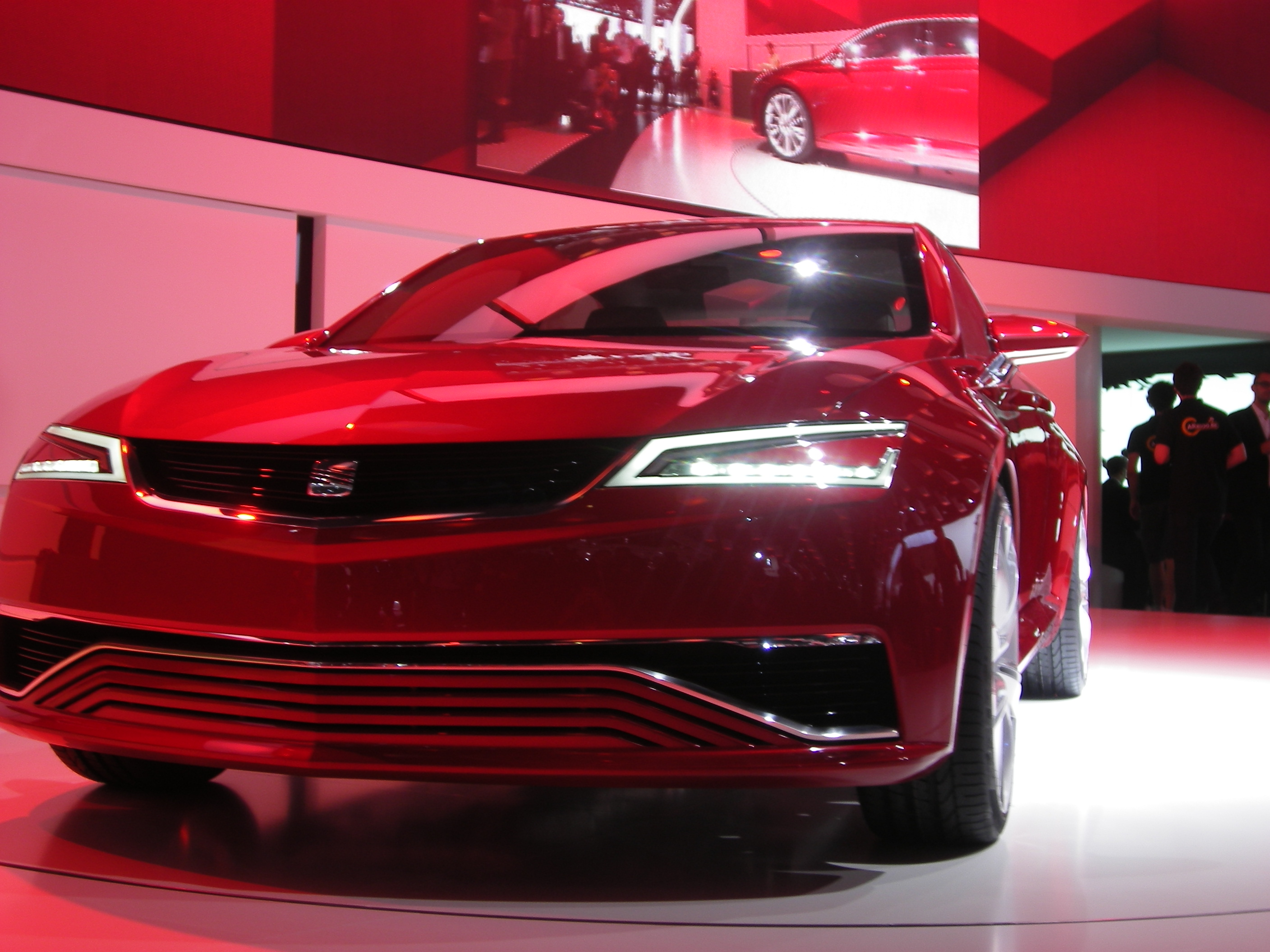 SEAT IBL front